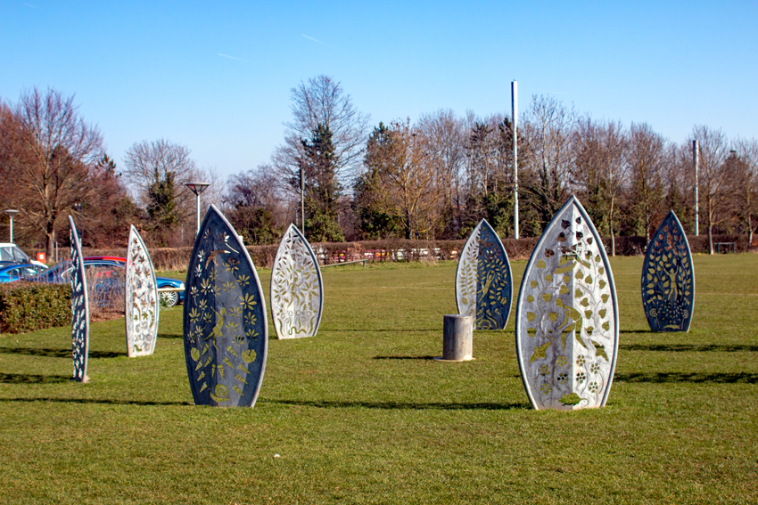 Sutherland Circle is a sculpture by Steve Tomlinson developed after workshops with pupils at a local school to reflect the wildlife and activities in Sutherland Memorial Park